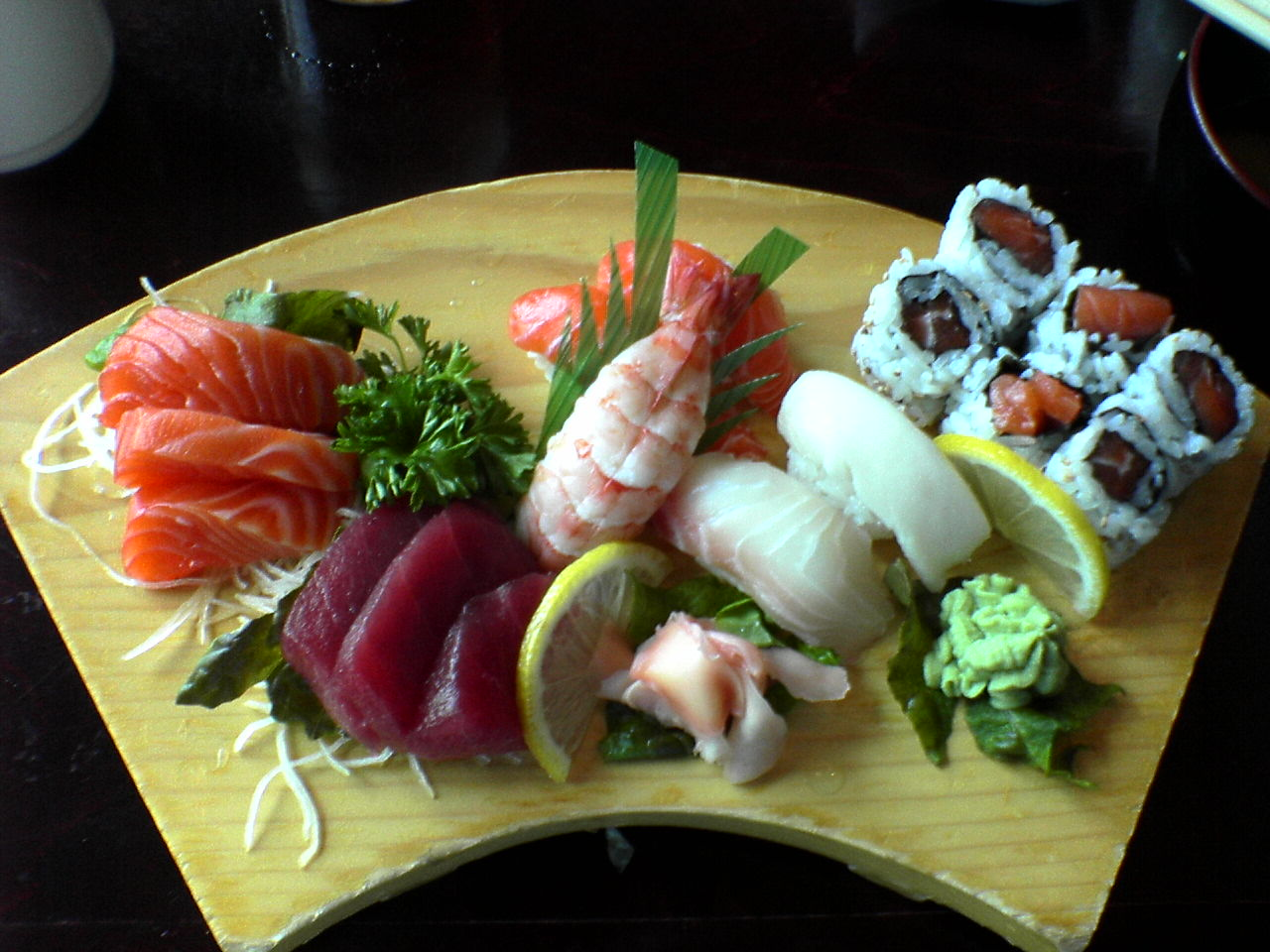 the #1 lunch combo -- taken with my s700 cameraphone and havin fun with flickr notes